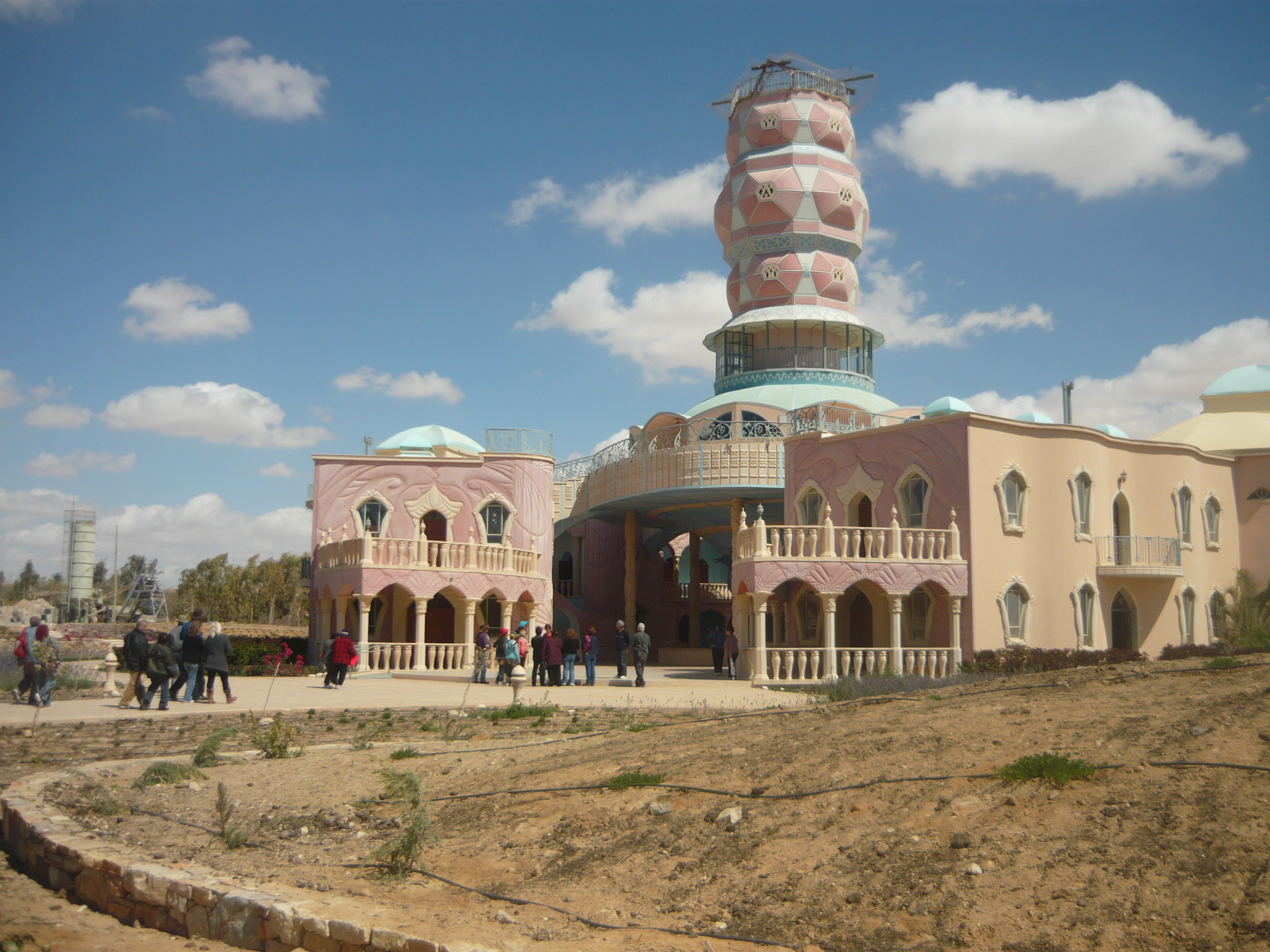 Art center in Neot Smadar, Israel. מרכז לאומנויות בנאות סמדר, ישראל